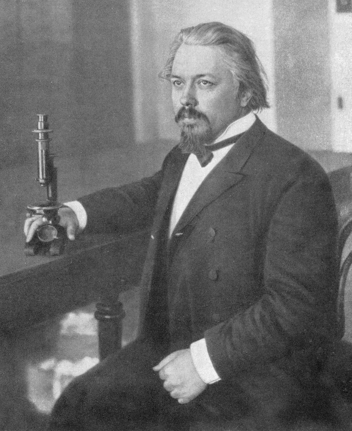 Academician A. P. Karpinsky